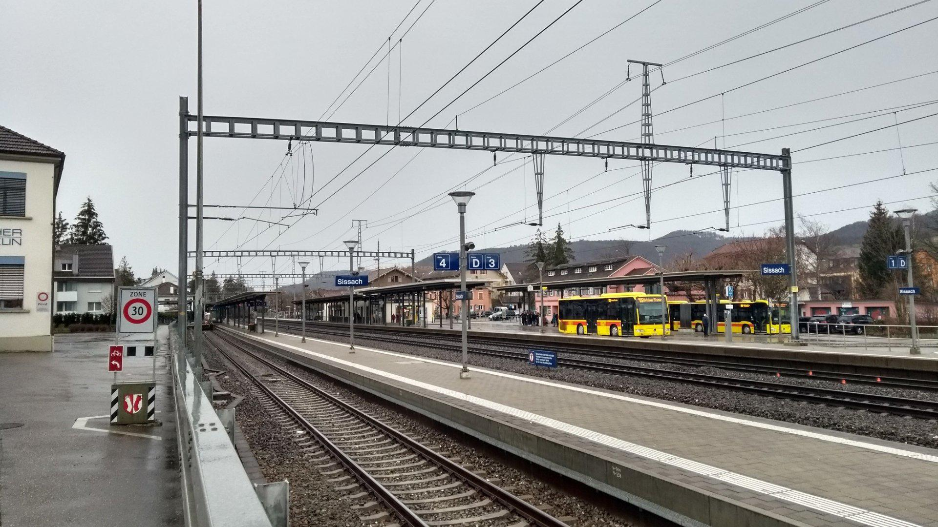 Sissach railway station in Sissach, Basel-Landschaft, Switzerland.